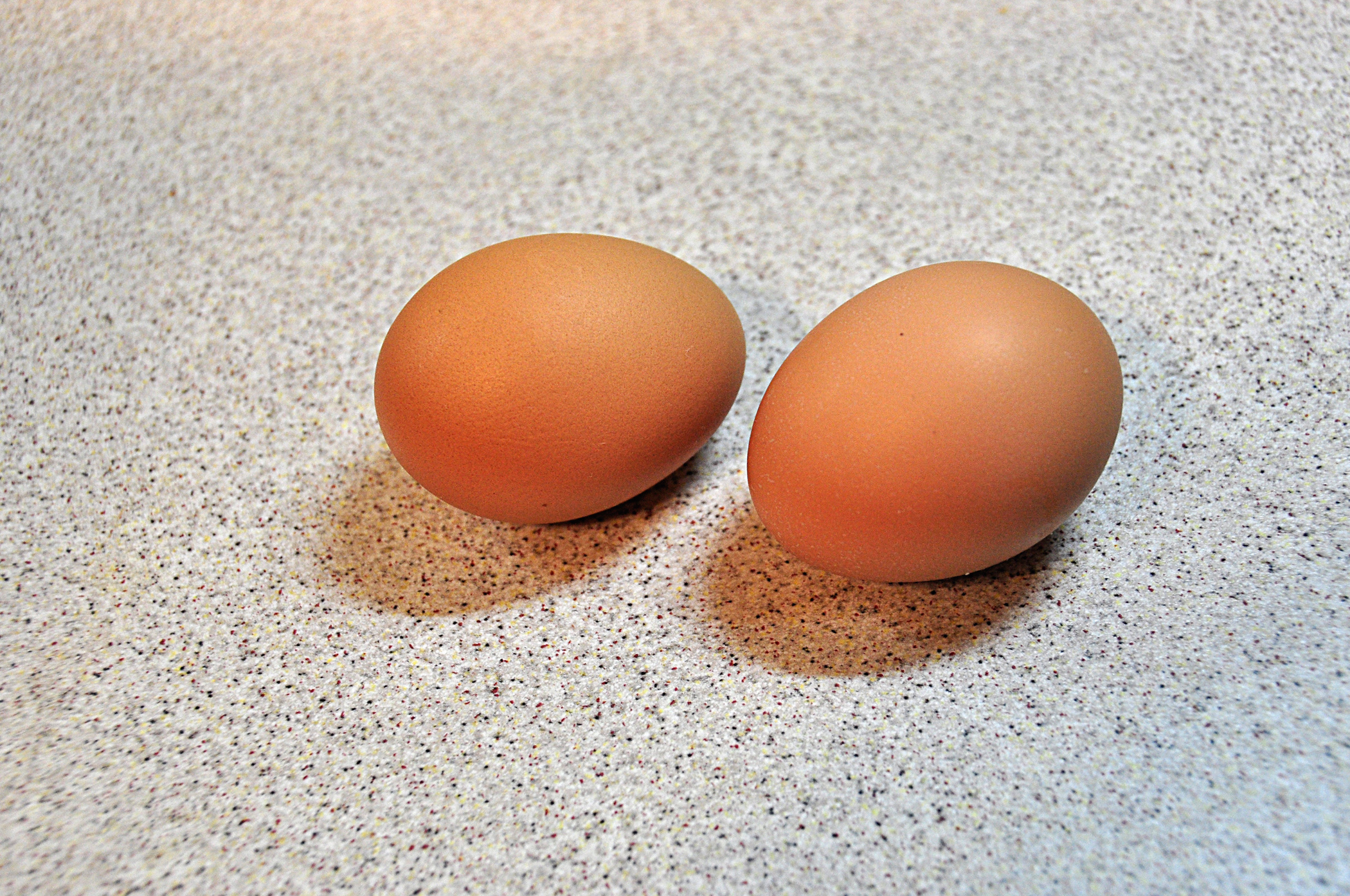 Brown chicken eggs